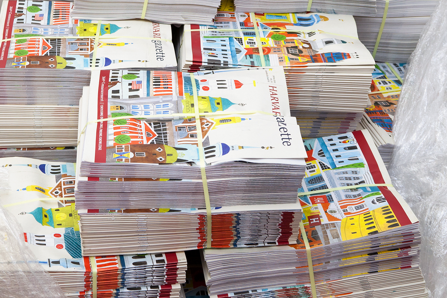 Harvard Gazette